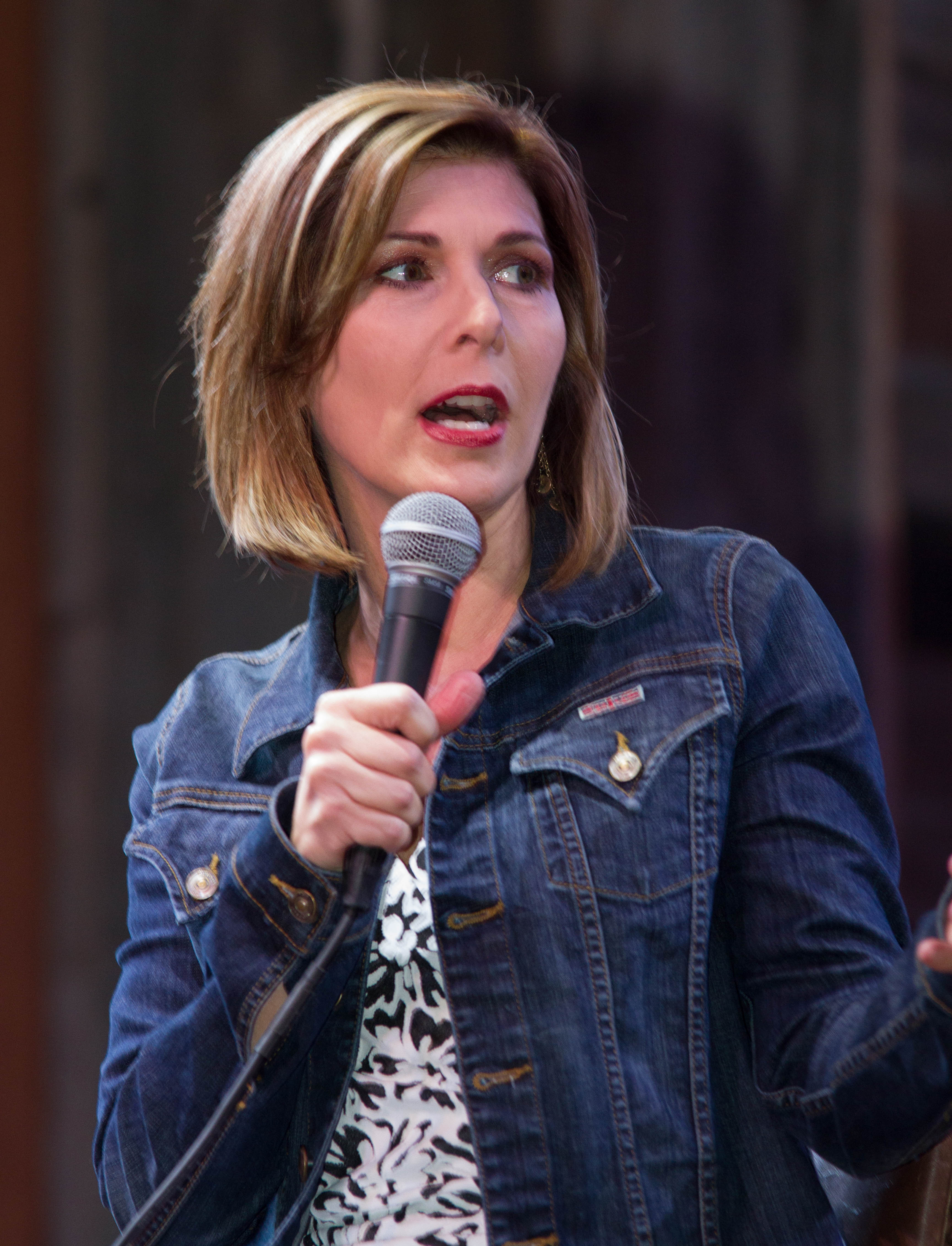 American journalist Sharyl Attkisson at the Redneck Country Club music venue in Stafford, Texas. She spoke and signed copies of her book Stonewalled.